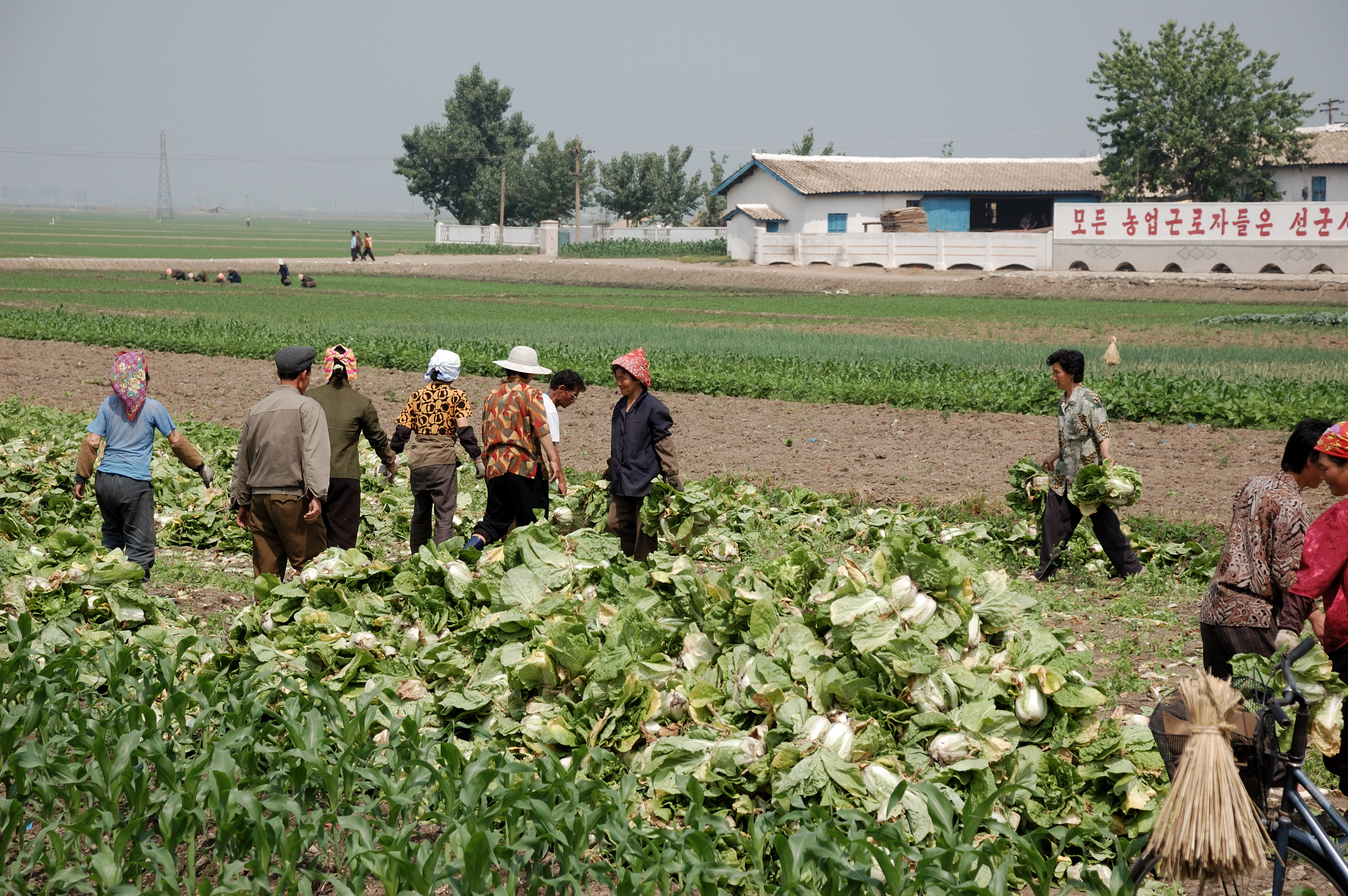 Trip to North Korea in June, 2008